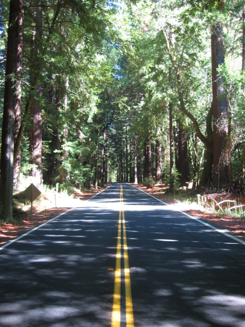 An unusually straight section of State Route 128.